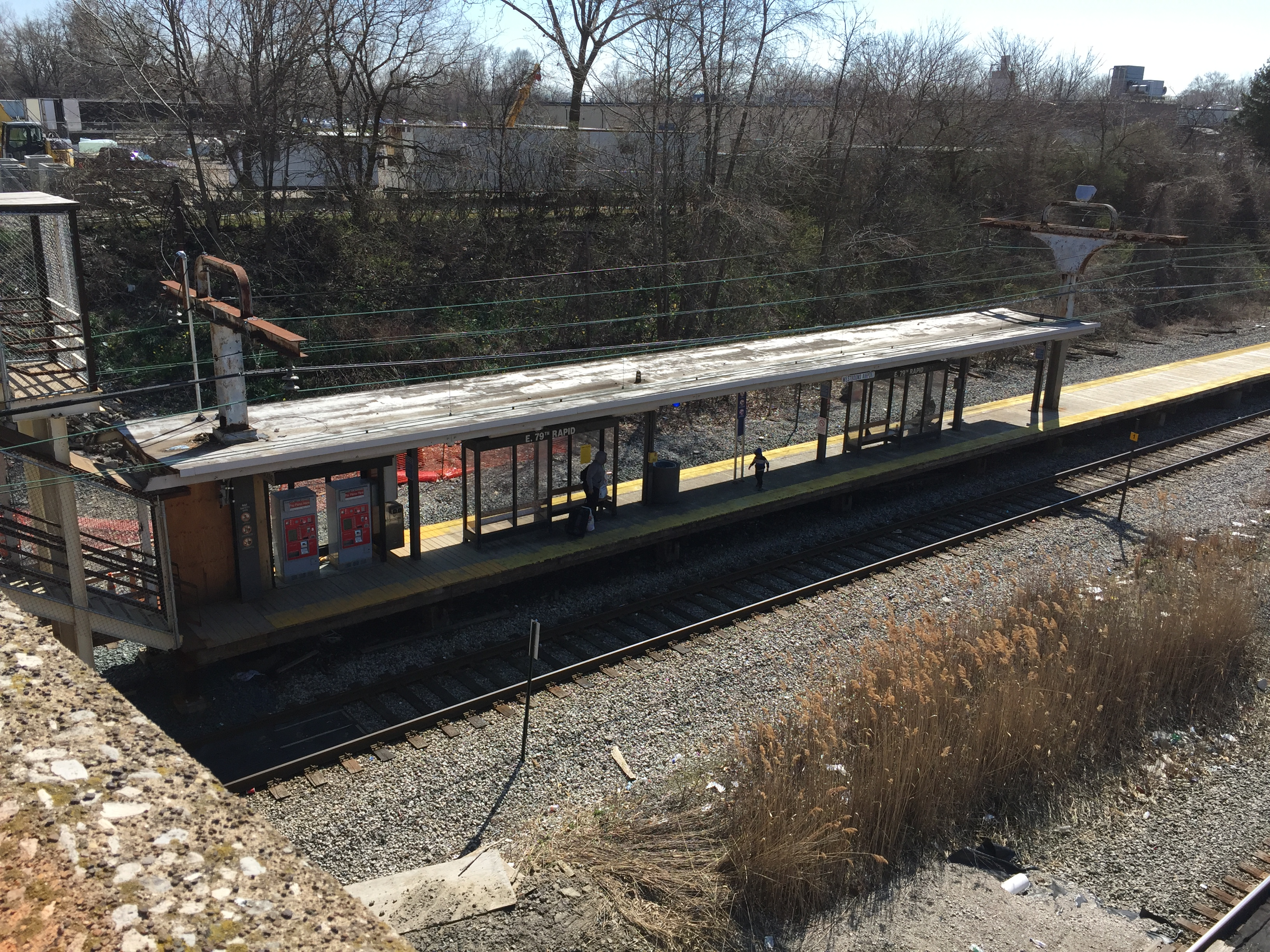 East 79th Rapid Station on the Red Line of the Cleveland RTA Rapid Transit in April 2016